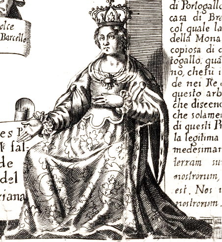 Mafalda of Savoy, wife of Alfonso I of Portugal.